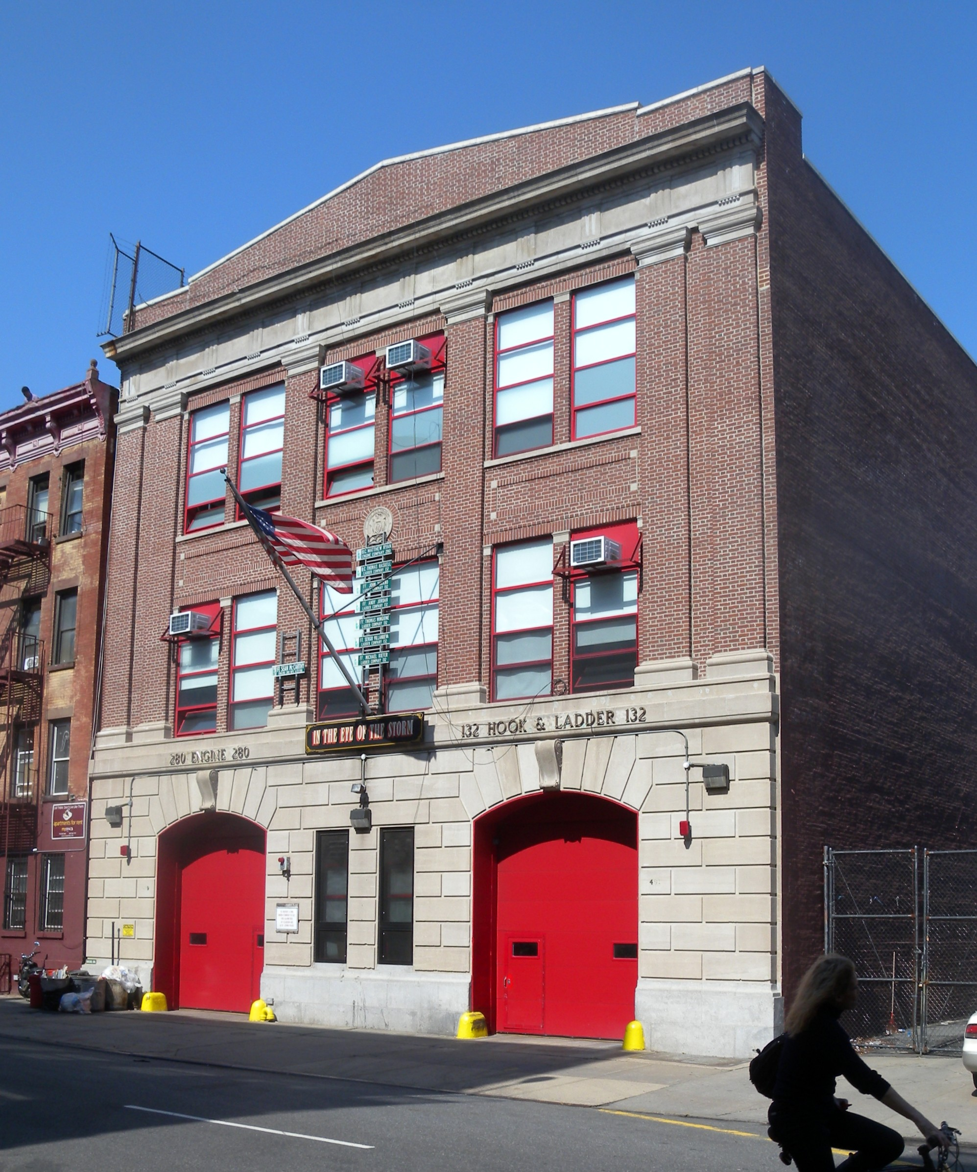 Looking north across St Johns Place at firehouse on a sunny midday.